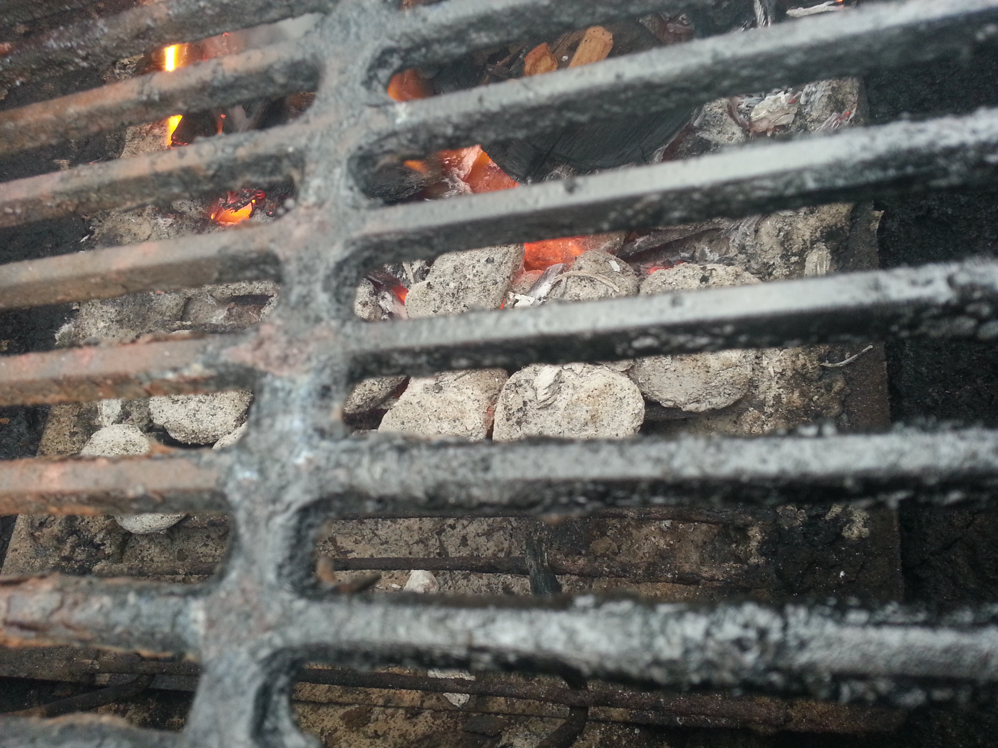 burning coals